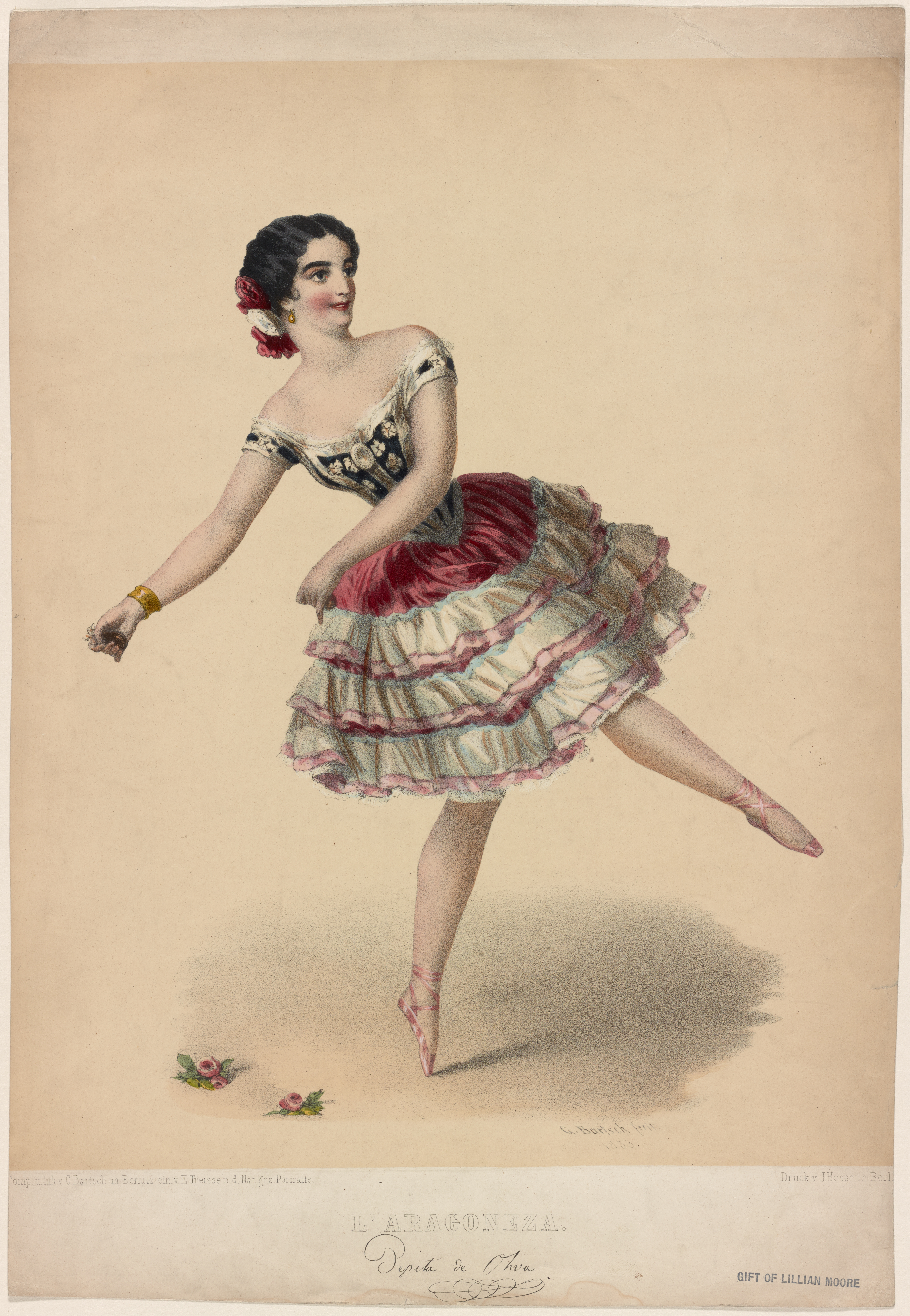 Signed and dated on stone. Full length to right; the dancer Pepita balanced on left foot on pointe, right leg extended to right in front of her; both arms to left, holding castanets.